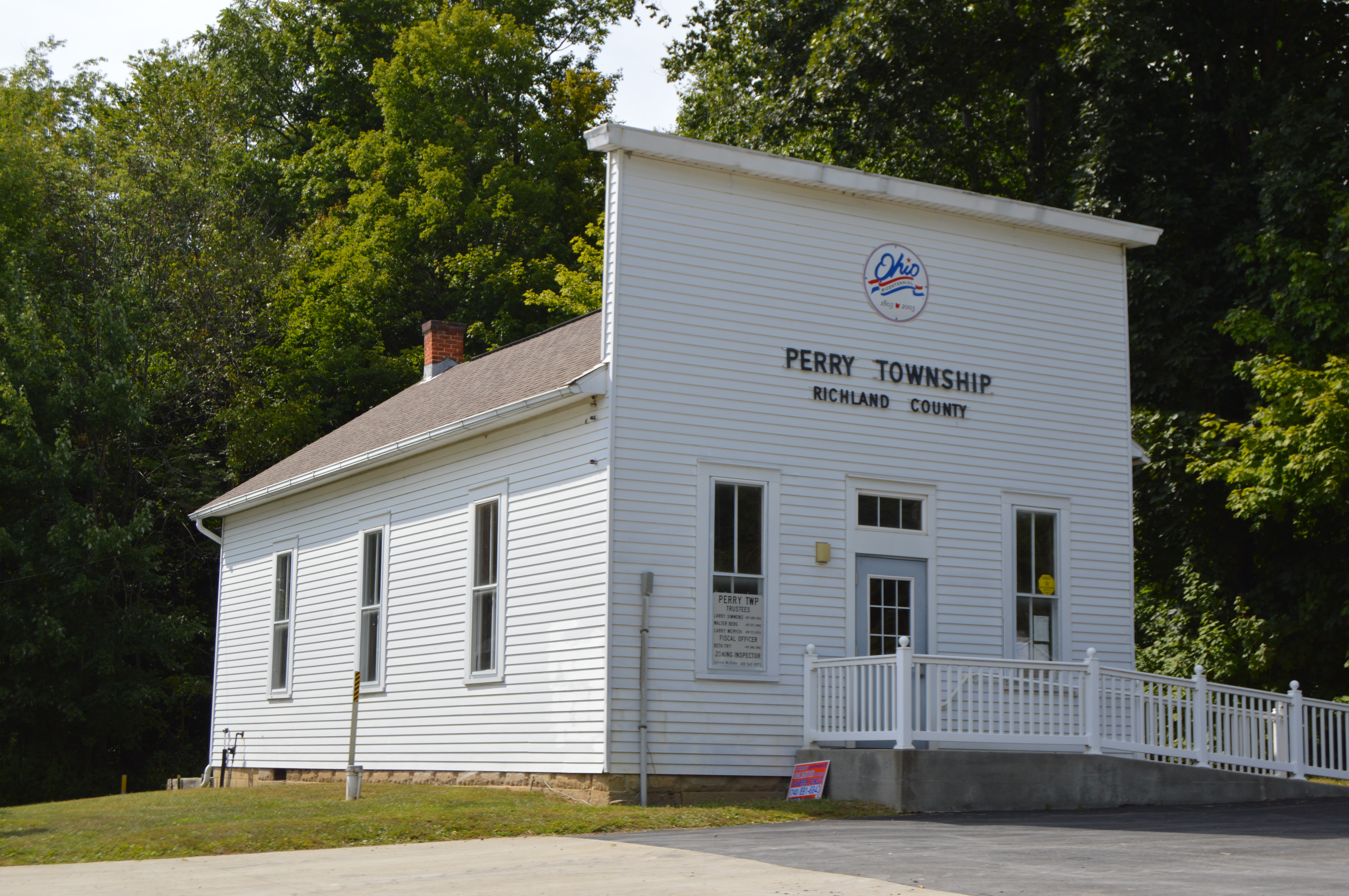 Front and southern side of the administration building for Perry Township, Richland County, Ohio, United States, located on Darlington North Road just north of Darlington West Road.